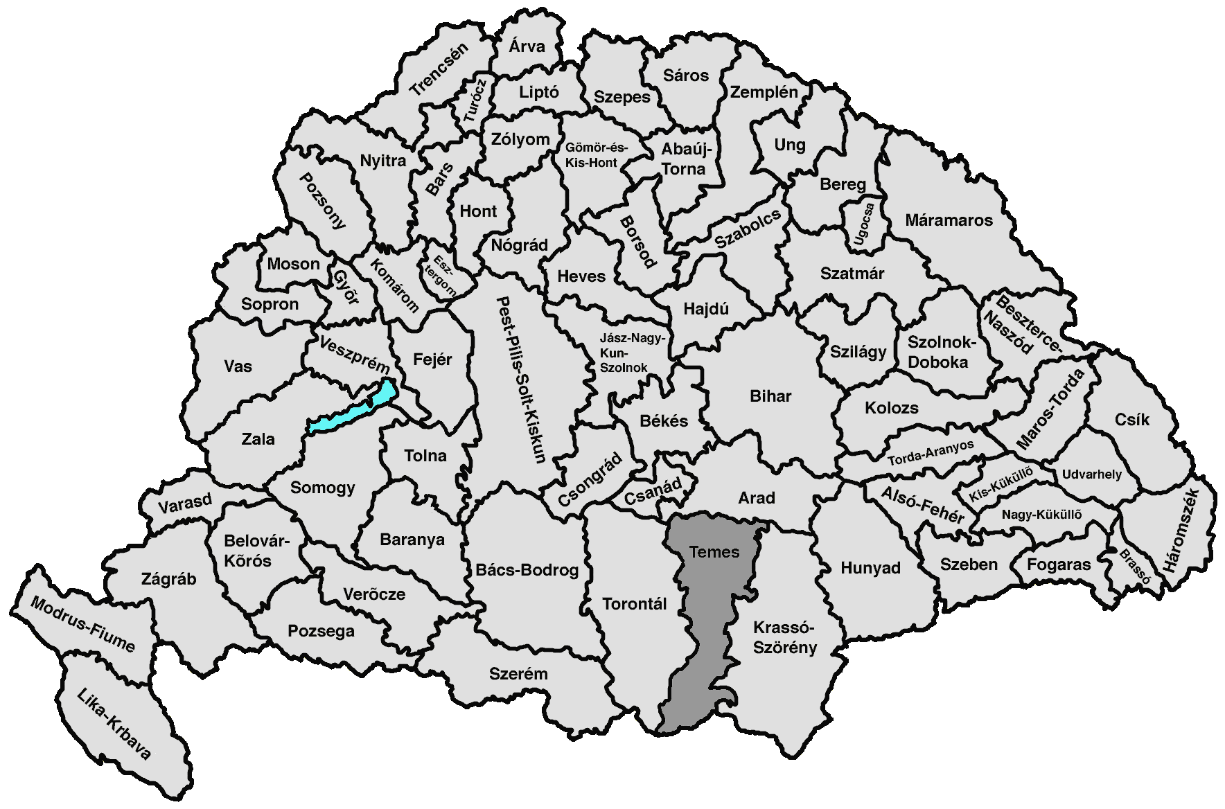 own edit of Image:Zala.png